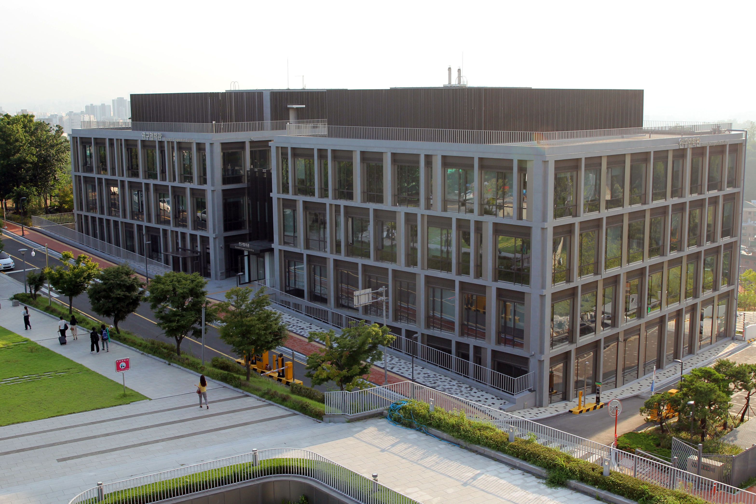 Elevated view of the new 2019 building housing the IBS Center for Quantum Nanoscience. Named 연구협력관, it contains the research center and other Ewha-related facilities.